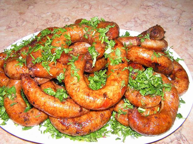 cow intestine stuffed with spicy rice This is an image of food from Egypt